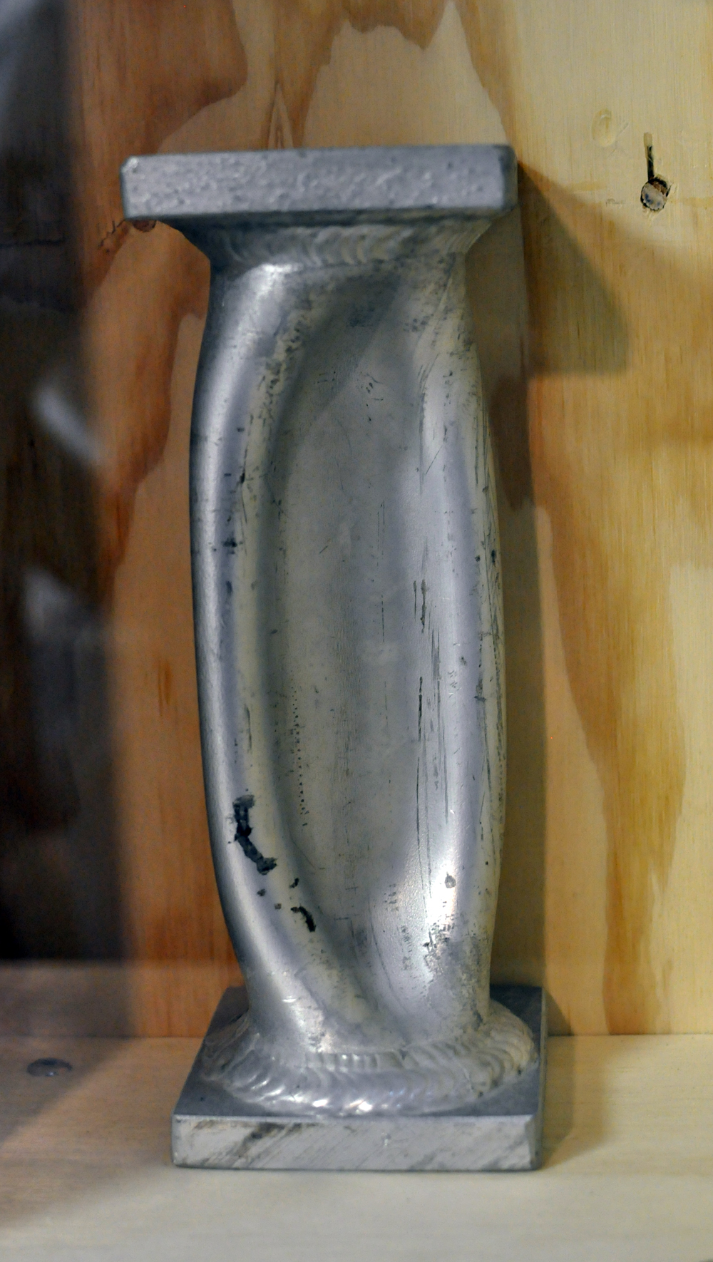 An aluminium cylinder (5mm thickness) after 700 bar pressure.